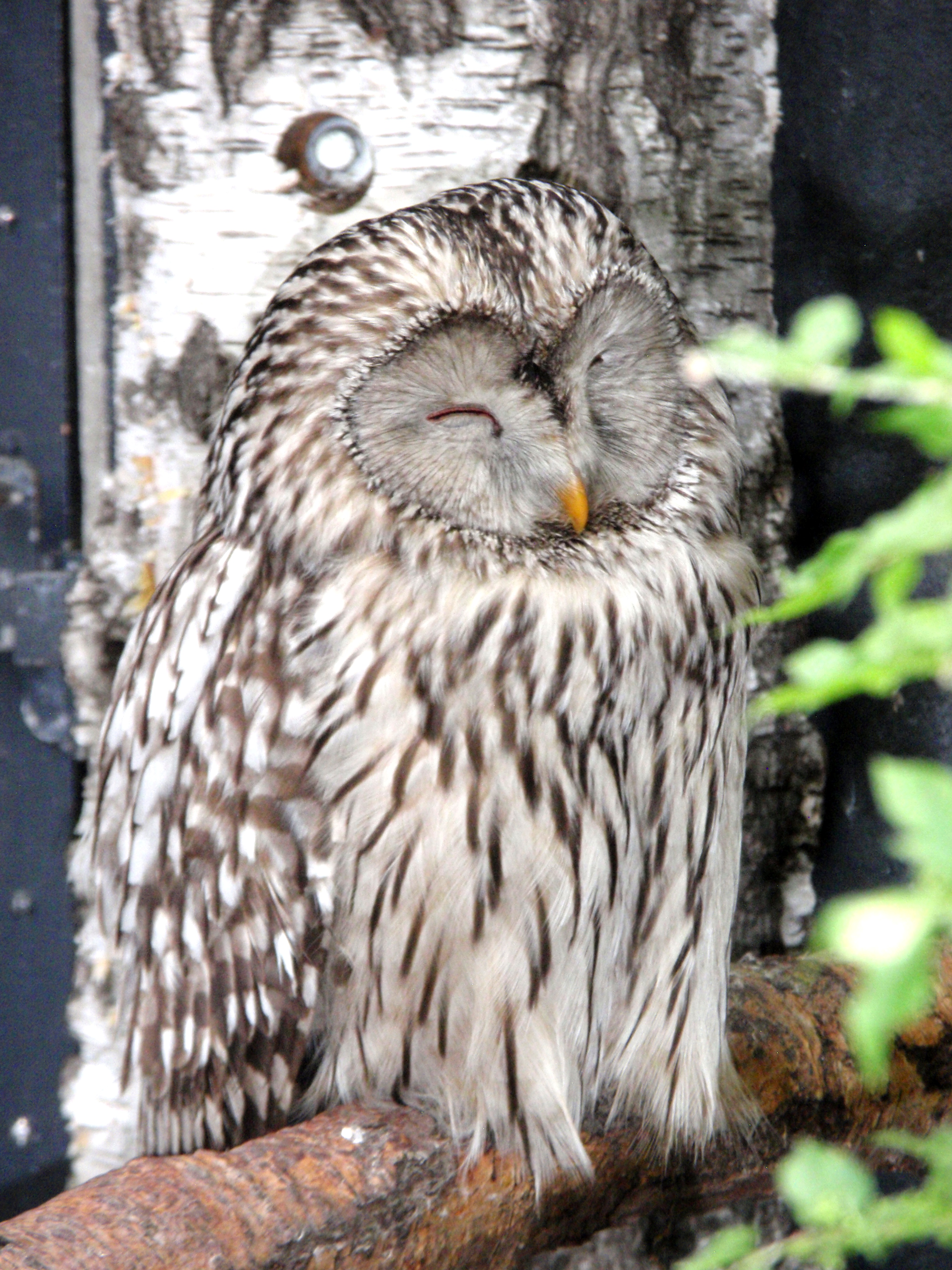 Ural owl with closed eyes in the Luisenpark Mannheim (Germany)